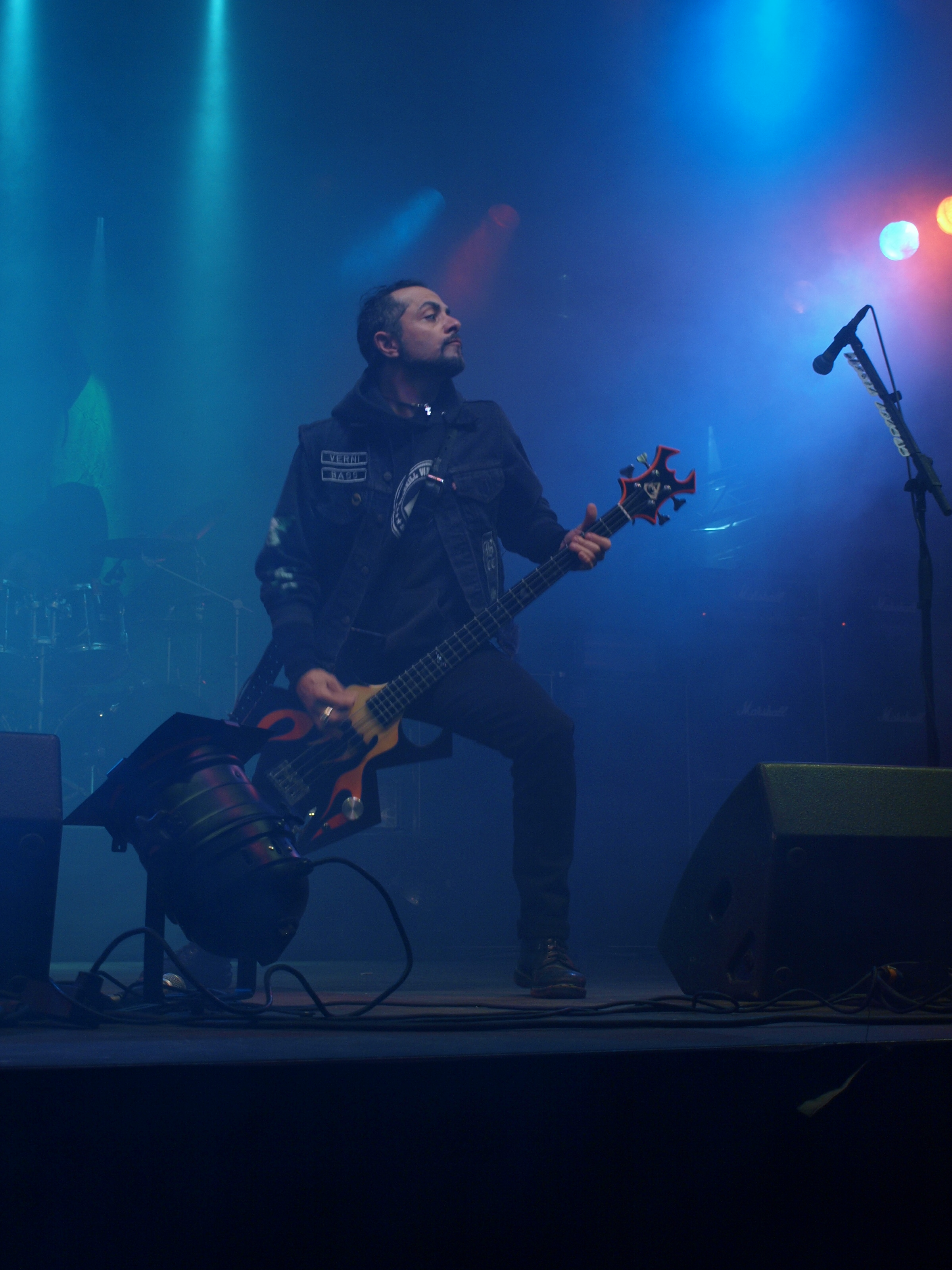 American thrash metal band Overkill live at Jalometalli 2008 in Oulu.